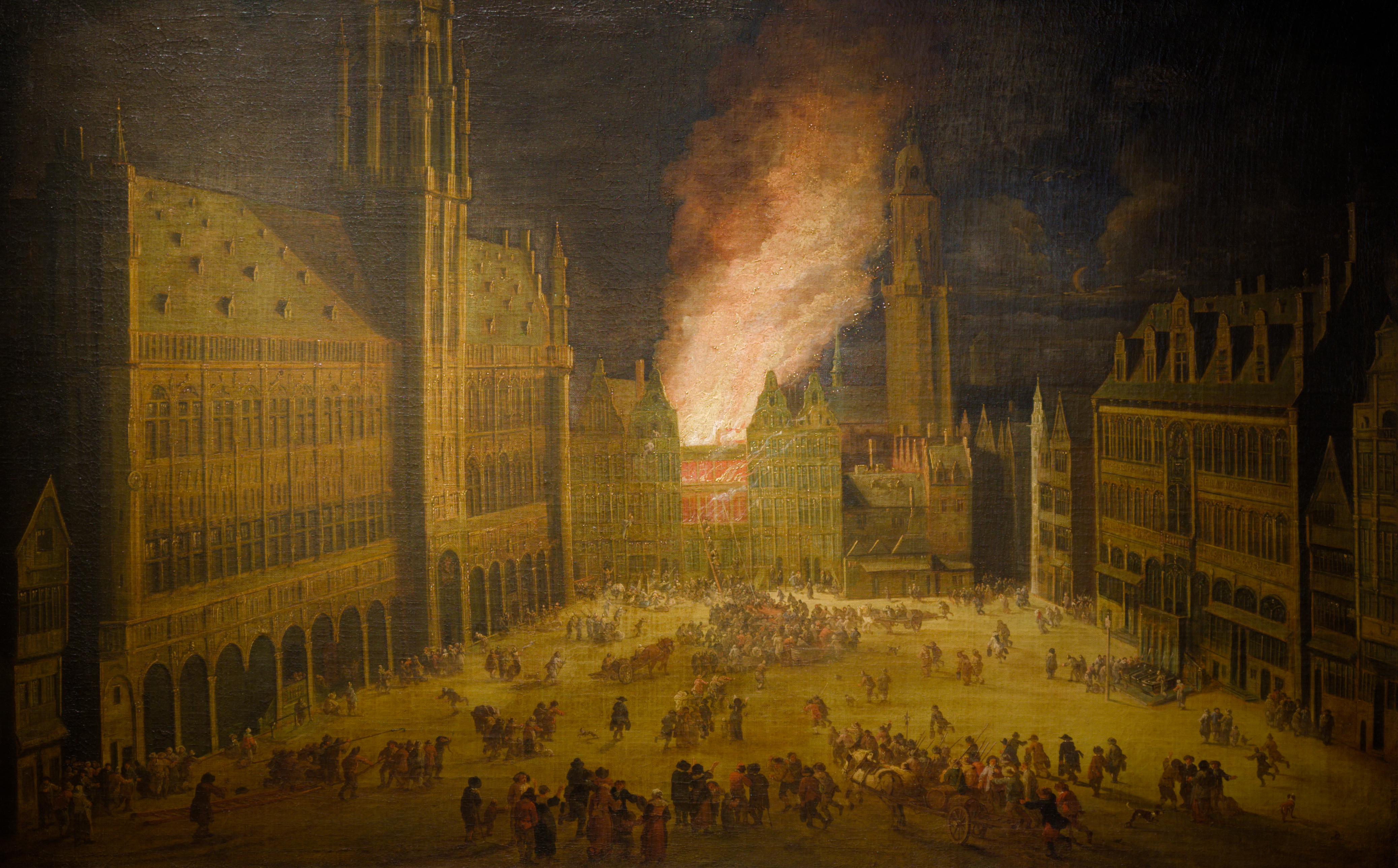 Fire at La Louve by Théodore Van Heil (1690) - The house was destroyed on the night of October 11th 1690. This painting is exposed in the Museum of the City of Brussels - the photograph is part of the Natural Image Noise Dataset